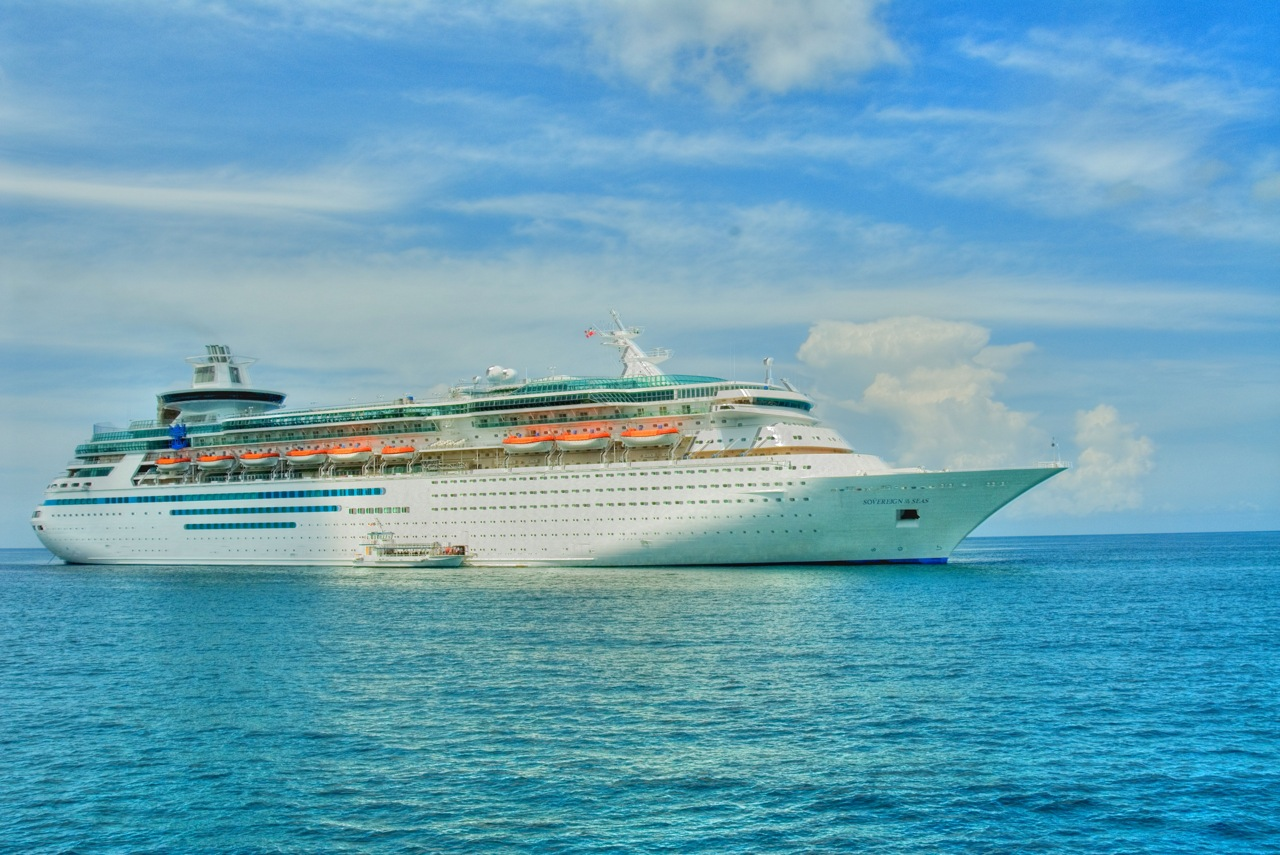 Royal Caribbean International cruise ship MS Sovereign of the Seas.